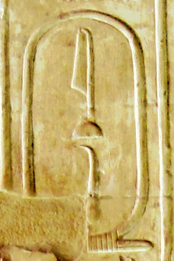 Cartouche 3 (ttj) Abydos King List. Temple of Seti I, Abydos, Egypt.